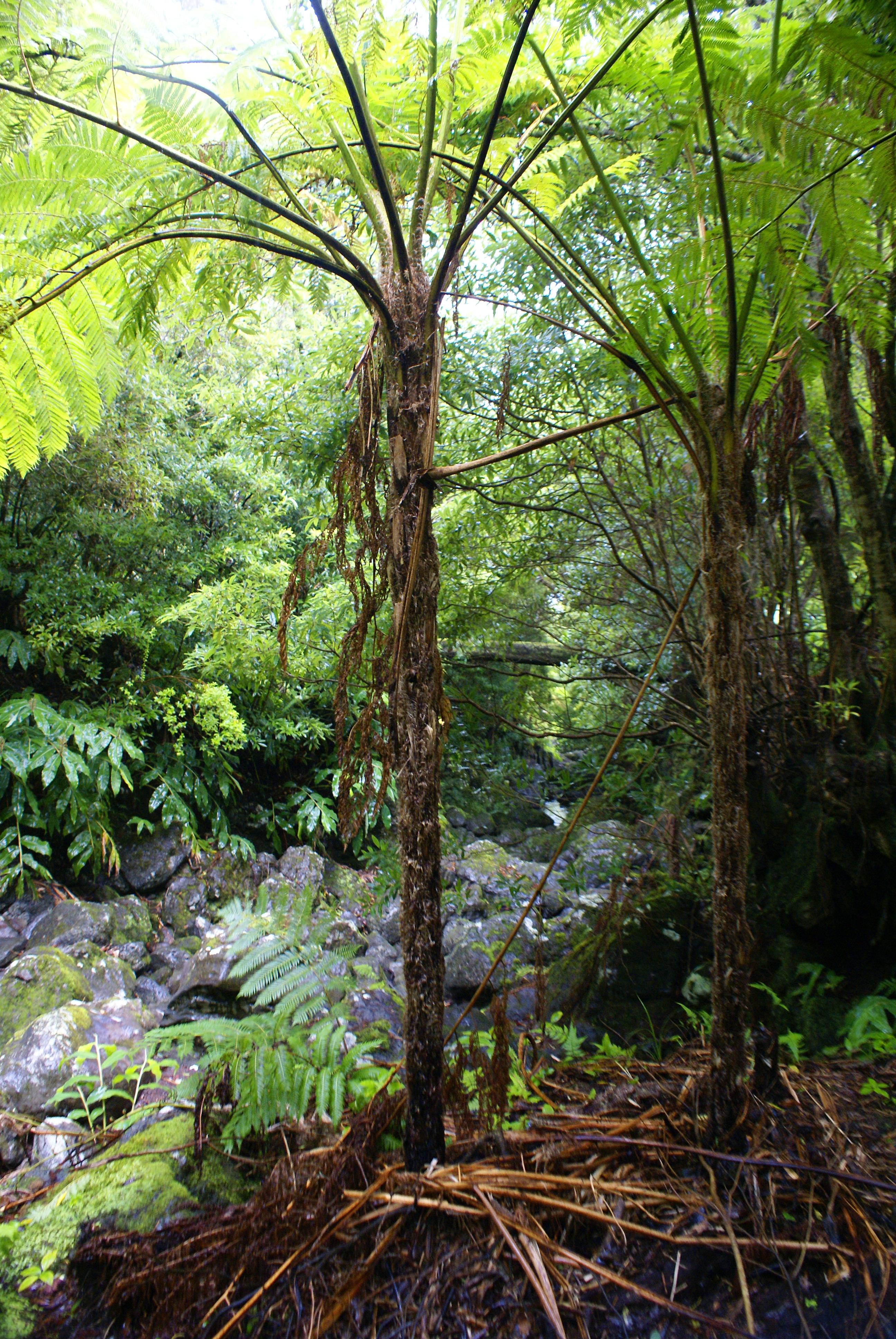 Poça das Asas, 4 concelho da Horta, ilha do Faial, Açores, Portugal